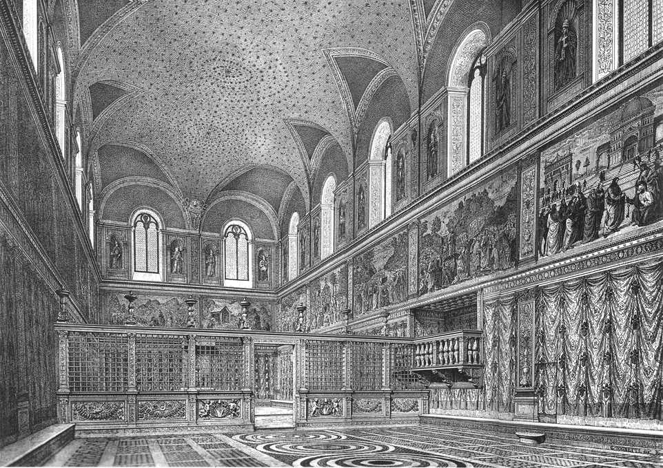 An engraving which attempts to reconstruct the probable appearance of the interior of the Sistine Chapel before the internal reorganisation, the moving of the screen; and the painting of the ceiling and Last Judgement by Michelangelo